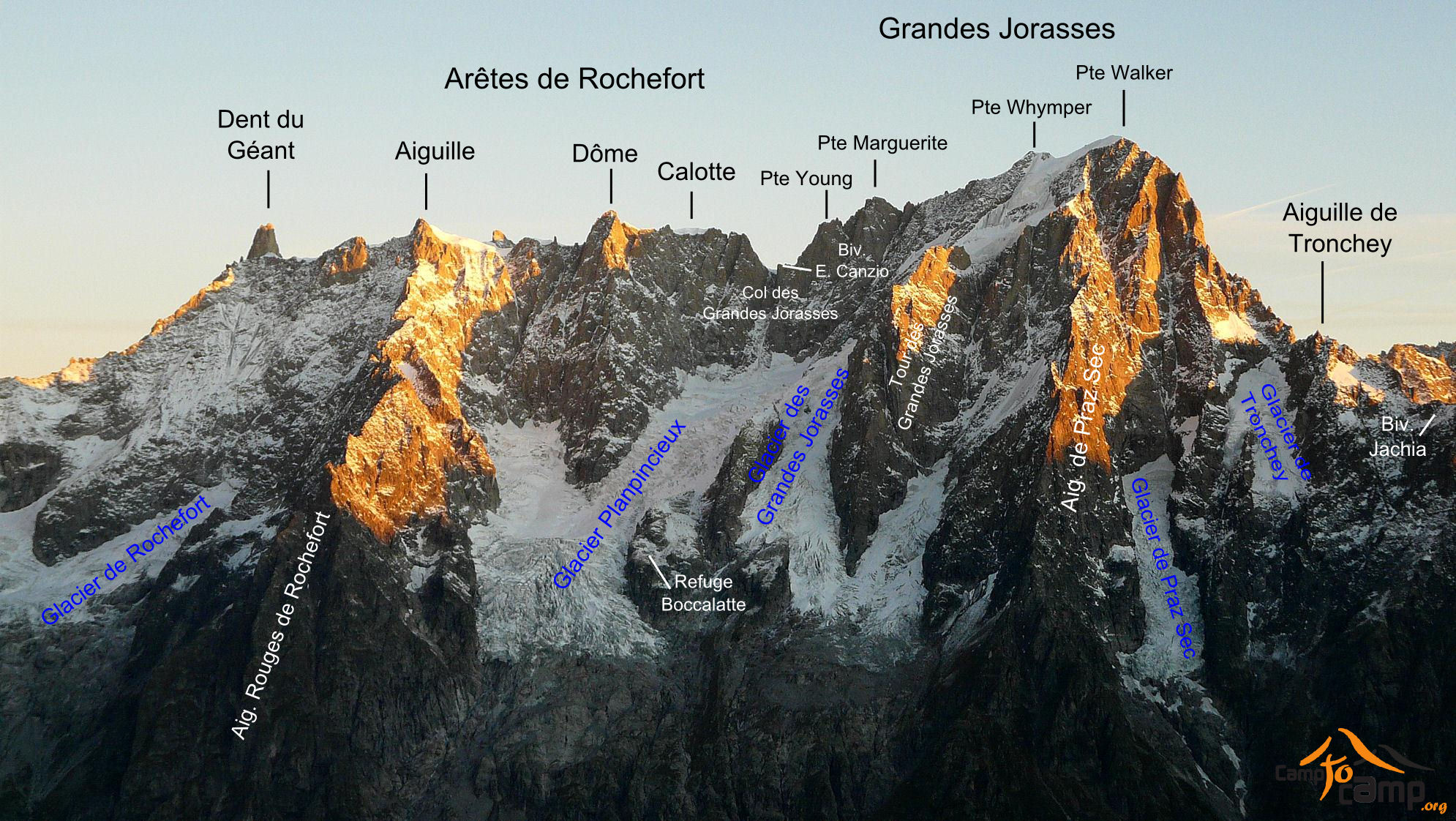 Dent du Géant - Grandes Jorasses - South face with labels